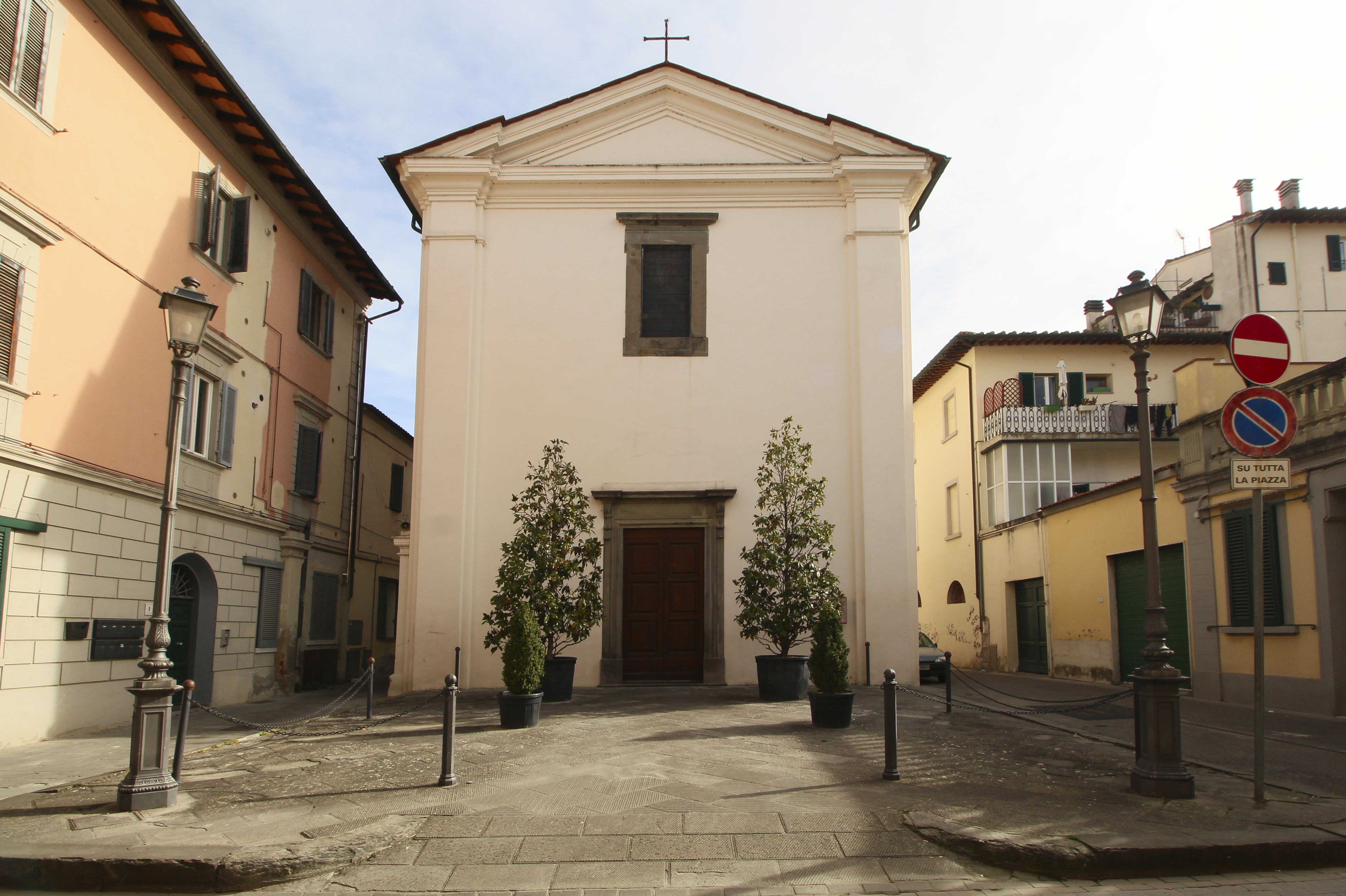 Church Santa Cristiana (Oringa Menabuoi), Santa Croce sull'Arno, Tuscany, Italy